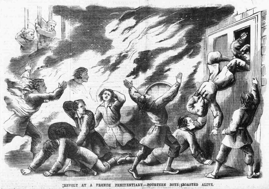 Children Kept Locked In Flame Room.